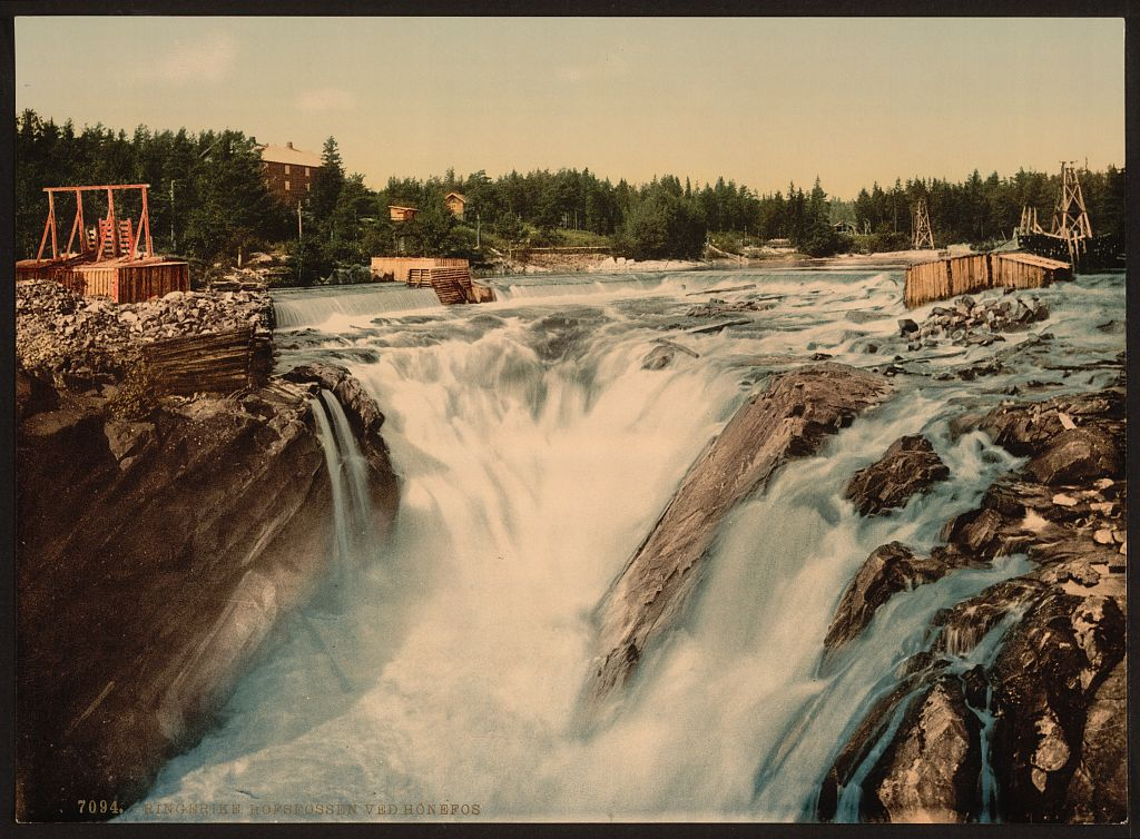 Hofsfossen with Honefos, Ringerike, Norway [between ca. 1890 and ca. 1900]. 1 photomechanical print : photochrom, color. Notes: Title from the Detroit Publishing Co., Catalogue J--foreign section. Detroit, Mich. : Detroit Publishing Company, 1905. Print no. 7094. Forms part of: Landscape and marine views of Norway in the Photochrom print collection. Subjects: Norway--Ringerike. Format: Photochrom prints--Color--1890-1900. Repository: Library of Congress, Prints and Photographs Division, Washington, D.C. 20540 USA, Part Of: Landscape and marine views of Norway (DLC) 2001699563 More information about the Photochrom Print Collection is available at Persistent URL: Call Number: LOT 13432, no. 097 [item]